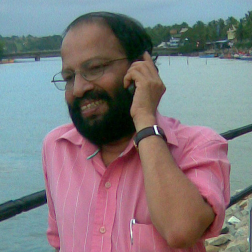 Photo of V.K. Prabhakaran, well known Malayalam Drama Writer